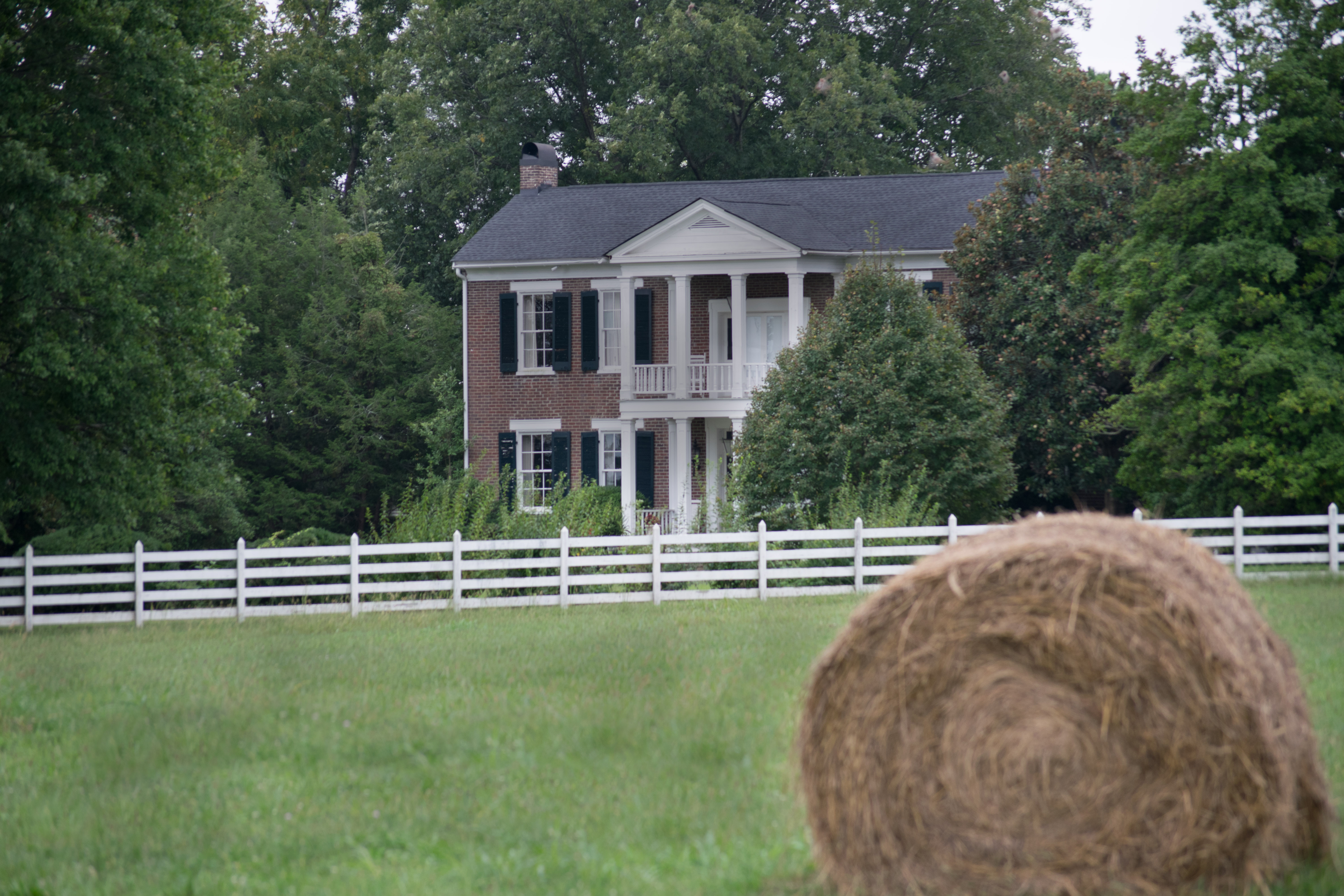 Home originally built by Thomas J B and Sarah Jetton Turner in 1843